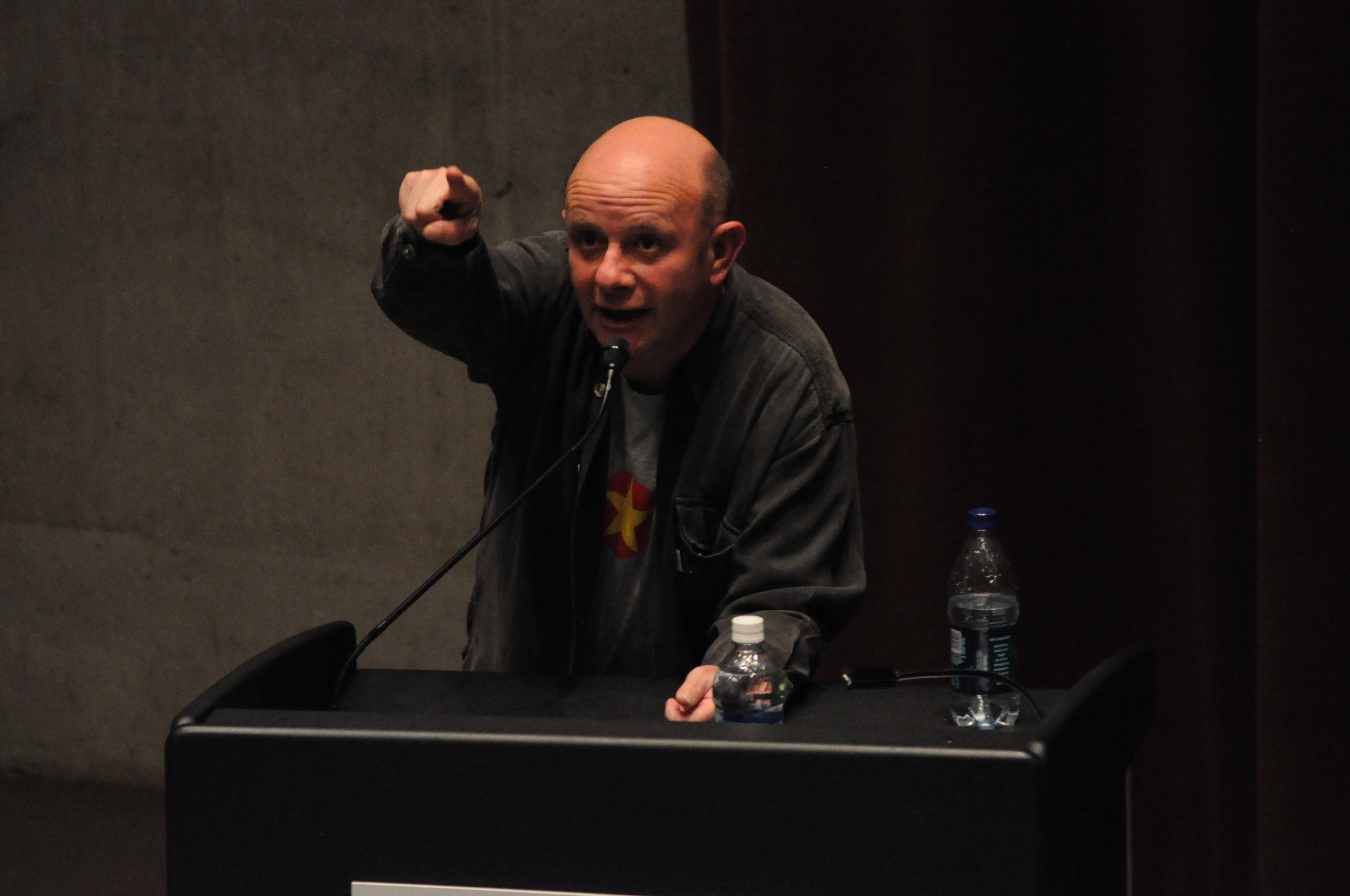 Nick Hornby giving a public reading at Central Library, Seattle, Washington.